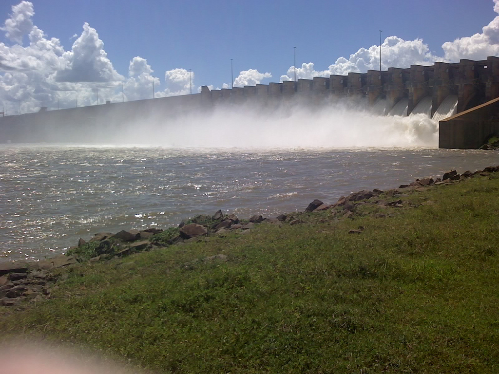 A view of the Ilha Solteira Dam